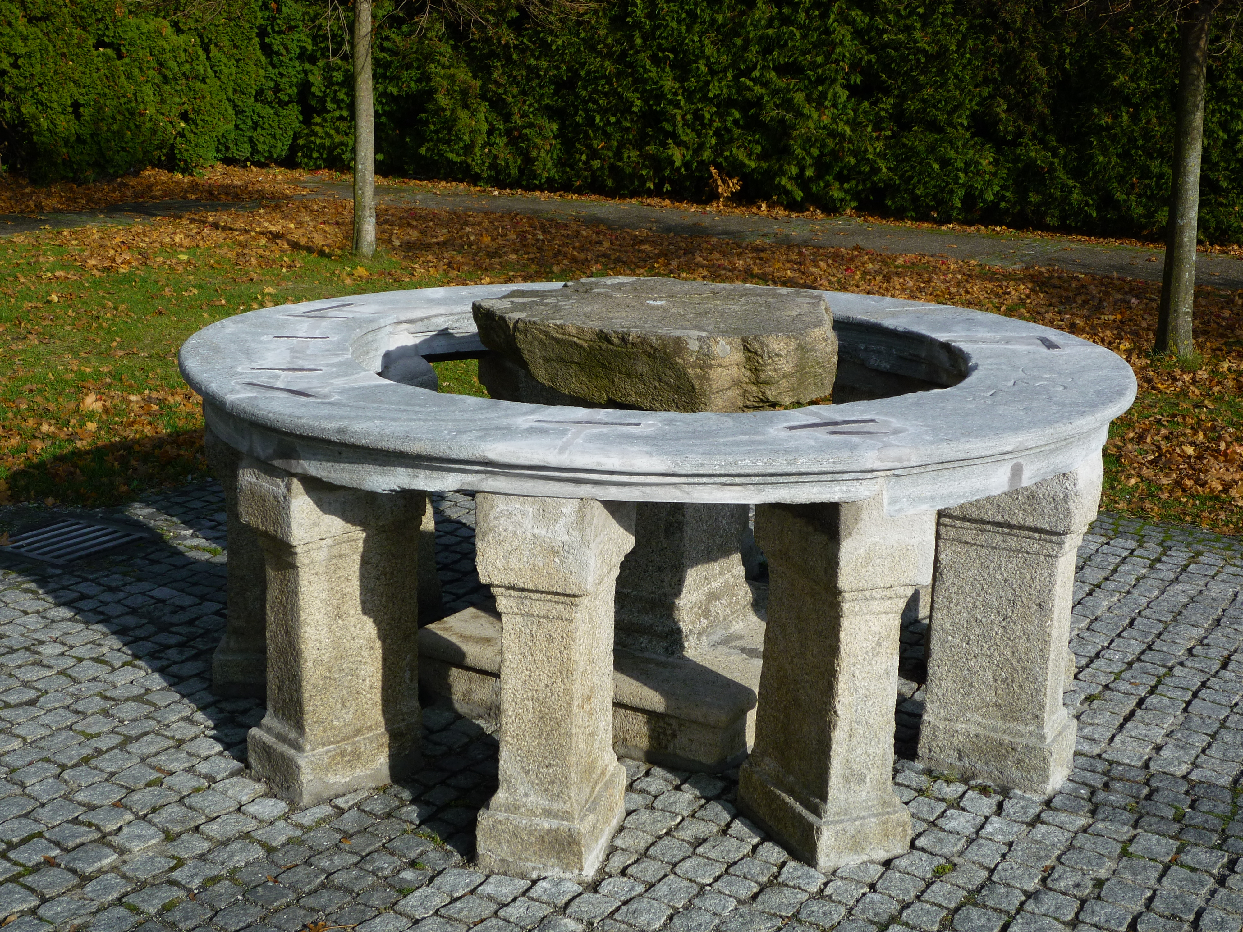 Celtic sacrificial rock, called Taferlstein, at the forecourt of Maria Taferl Basilica, Lower Austria